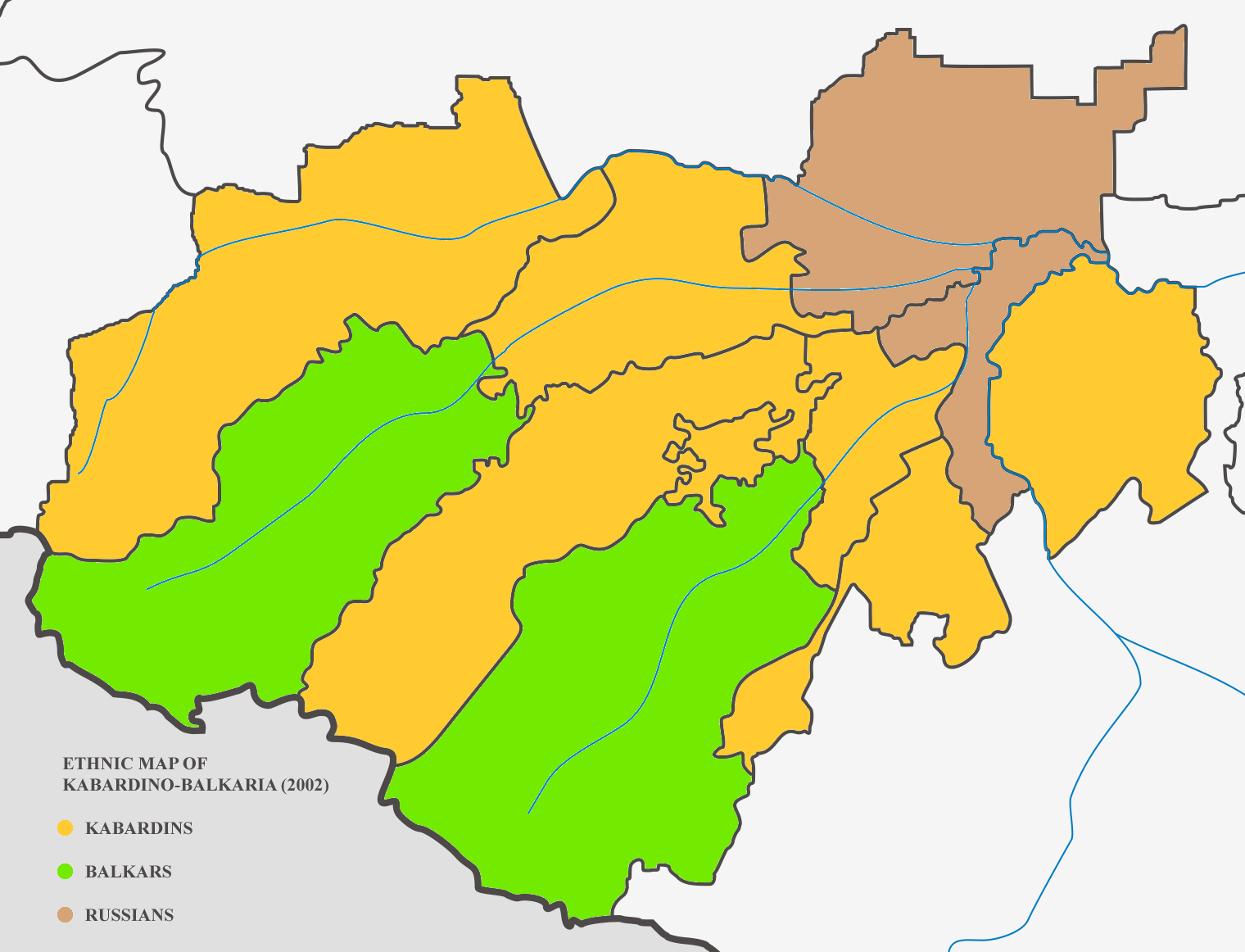 Fictional ethnic map of Kabardino-Balkaria (2002). As of 2016 Chegem Valley is still part of Balkar lands. Sources: 1. 2. Russian census, 2002